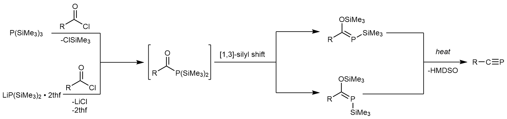 A figure describing the synthesis of substituted phosphaalkynes via the elimination of hexamethyldisiloxane